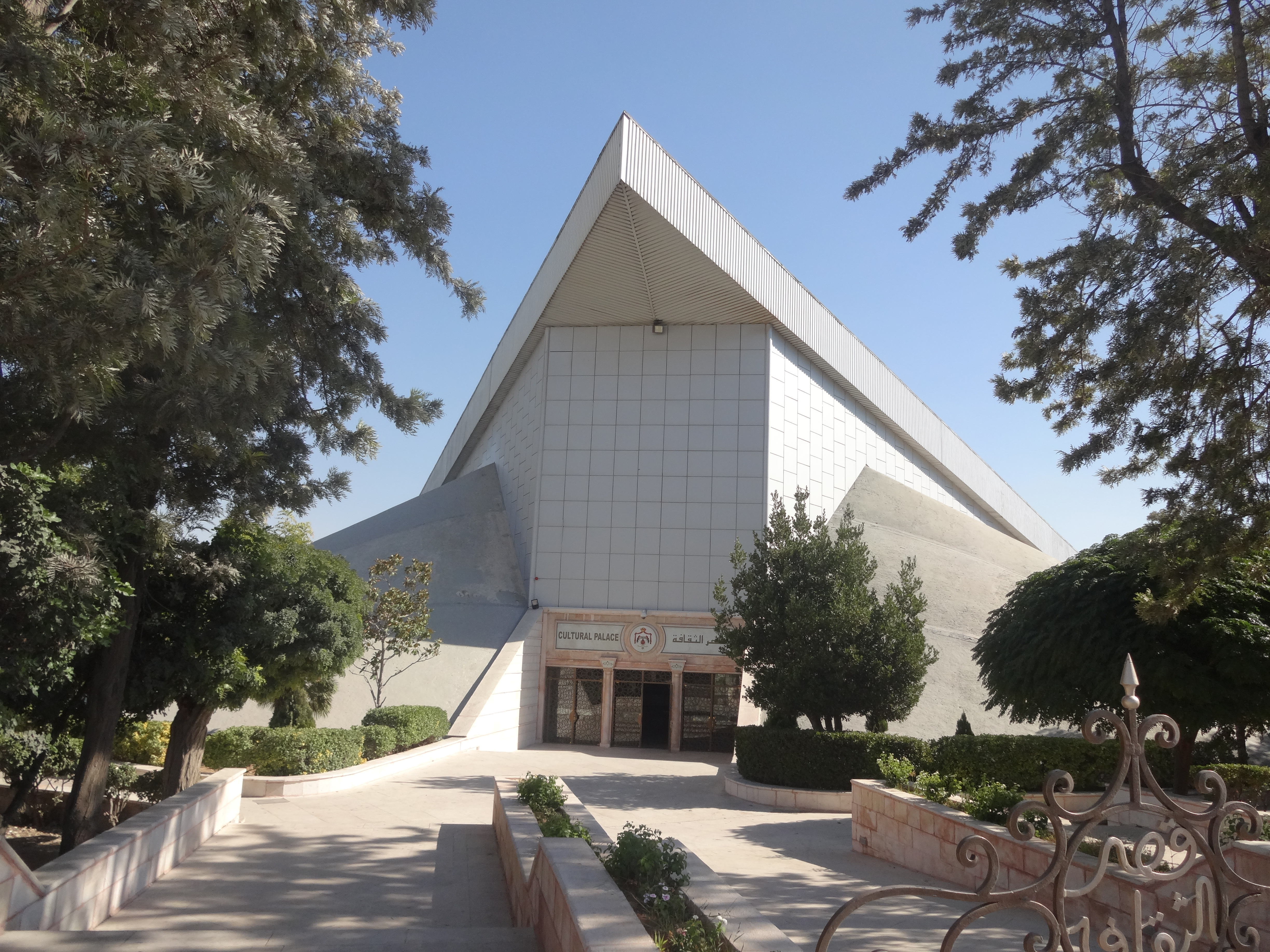 Qaser Al Thaqafeh (Cultural Palace), Amman, Jordan